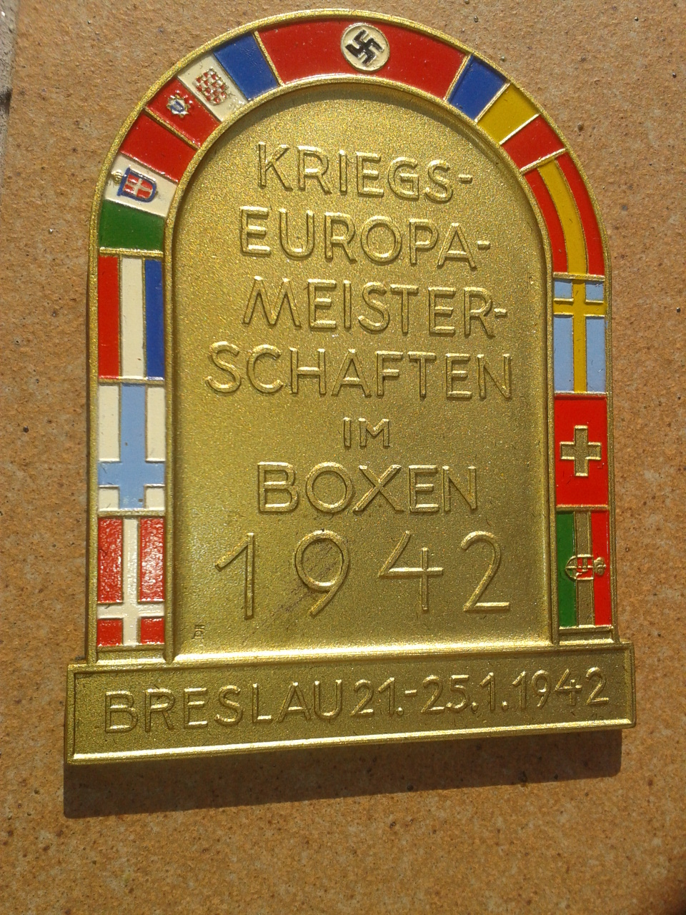 Commemorative coin of Breslau 1942 European Boxing amateur Championsgit